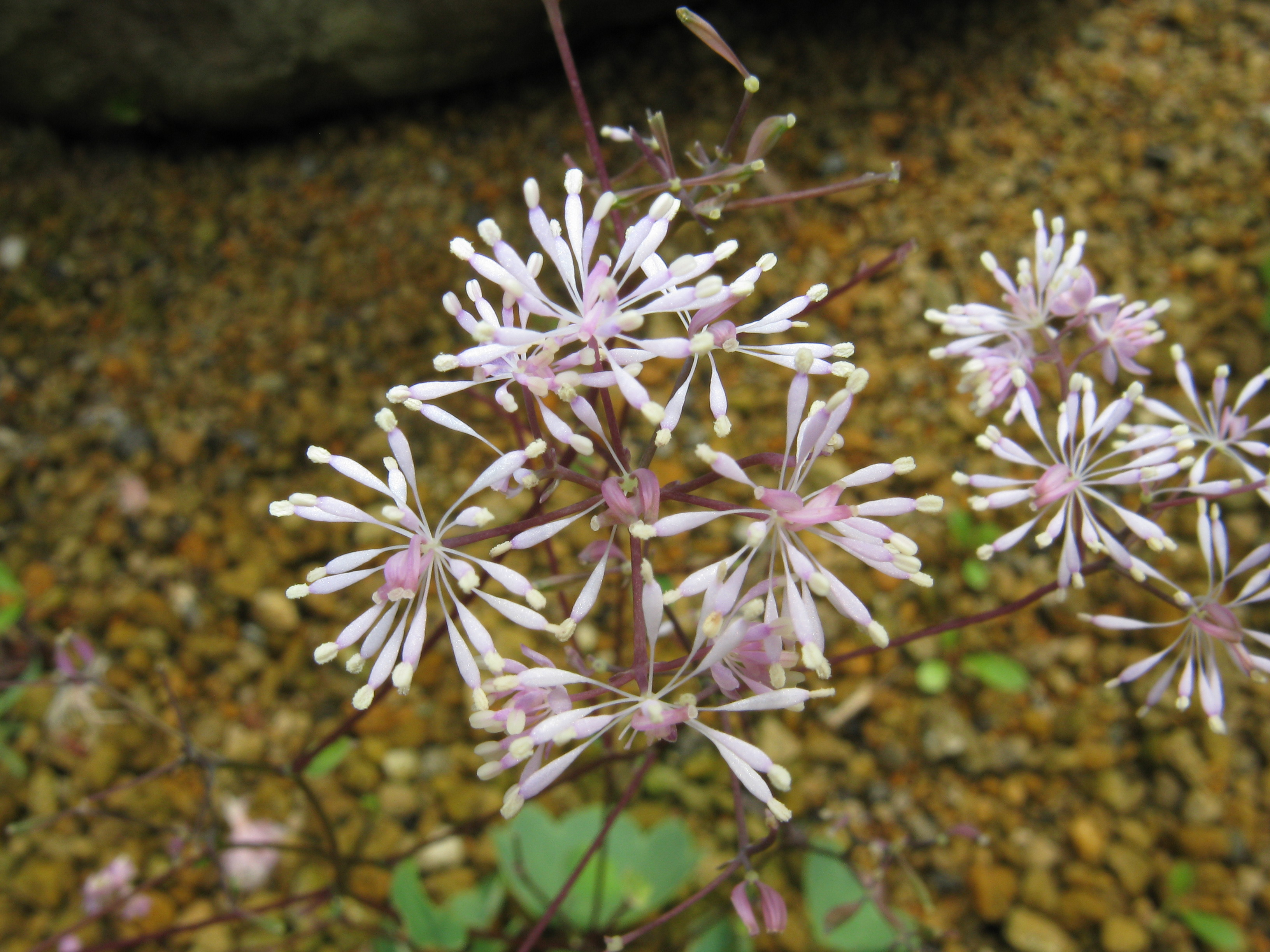 Thalictrum coreanum Place:Osaka Prefectural Flower Garden,Osaka,Japan